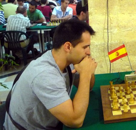 GM Julen Luis Arizmendi Martinez Spain, Villarrobledo 2008.